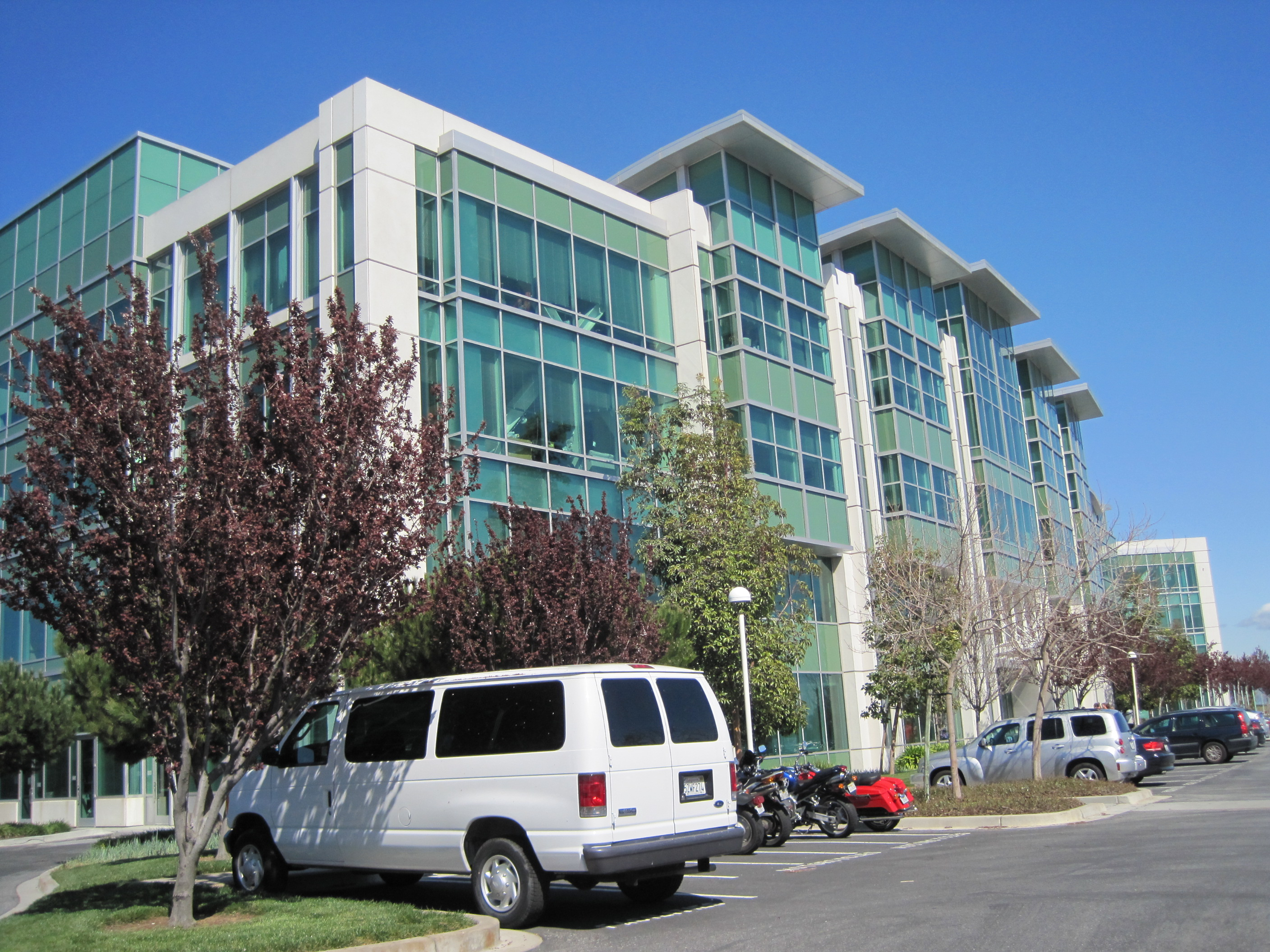 The headquarters of PDI/Dreamworks at 1800 Seaport Boulevard, in Redwood City, California.